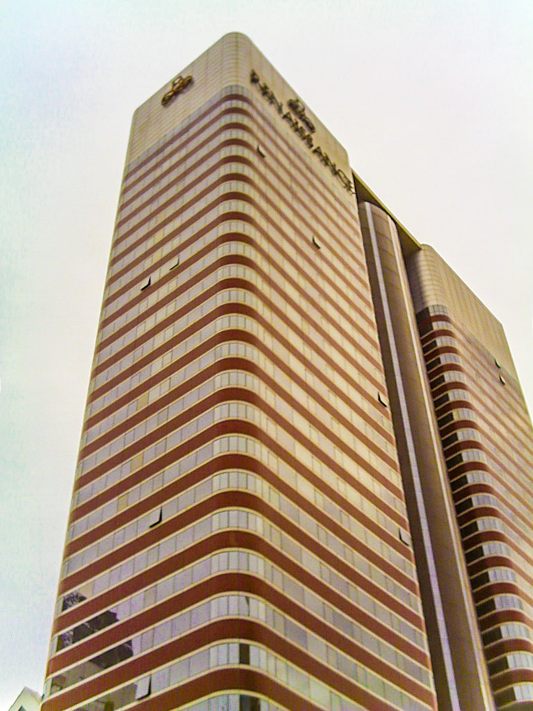 Renaissence Hotel in São Paulo City, Brazil.